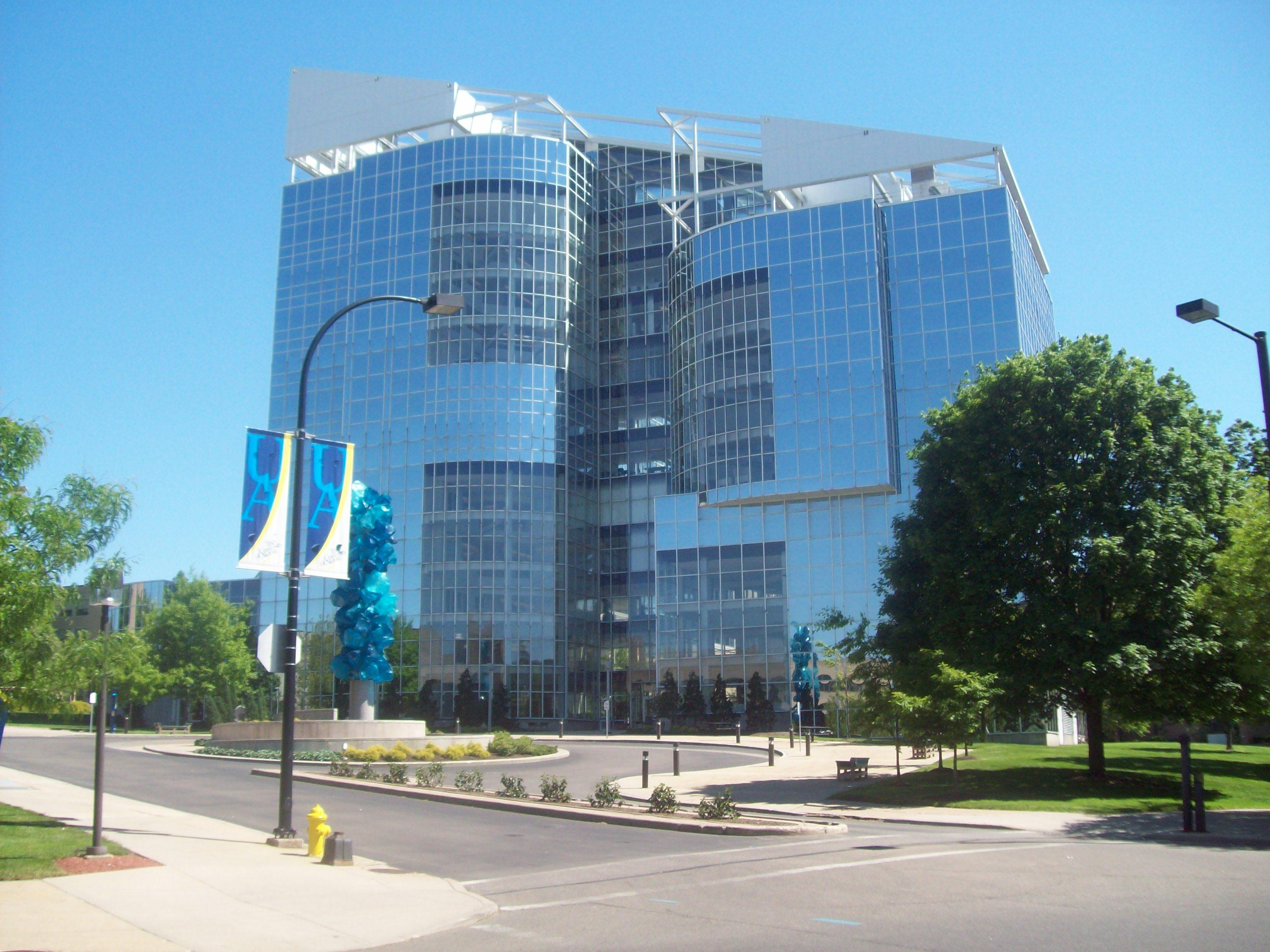 Polymer Tower in Akron, Ohio, United States.